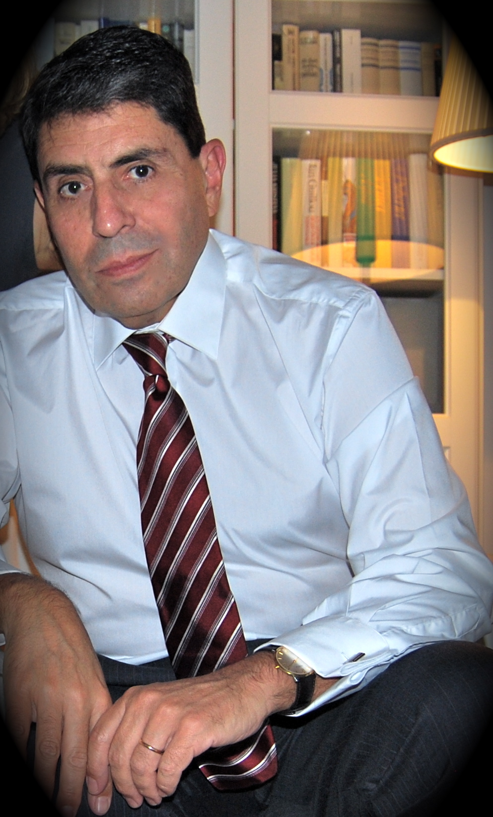 photo Mauricio Rojas Mullor